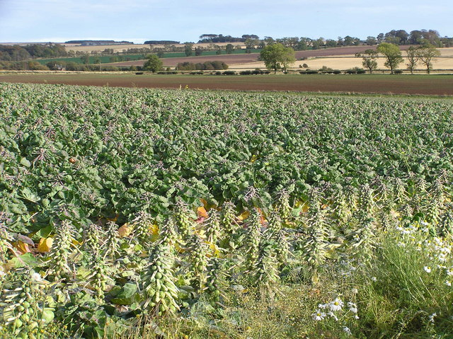 Brussels Sprouts